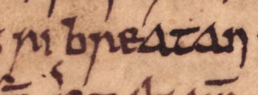 An excerpt from folio 33v of Oxford Bodleian Library MS Rawlinson B 489 (the Annals of Ulster). The excerpt concerns Dyfnwal ab Owain, King of the Cumbrians (died 975).